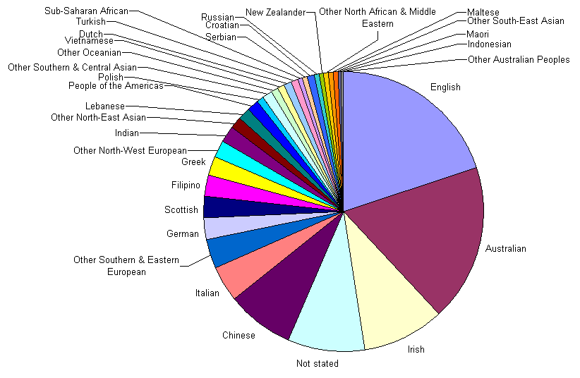 Graph I made using ABS data showing Ancestry as determined by birthplace of parents for Summer Hill, NSW, Australia